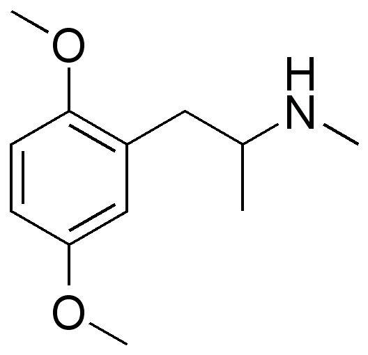 Chemical structure of Methyl-DMA, drawn in ChemDraw by User:Mark PEA.